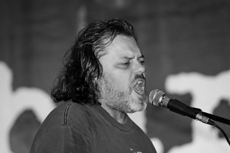 Andrea "Orla" Orlandini in concert with Bandabardò at Sonica Festival 2009 in Sant'Agata Bolognese